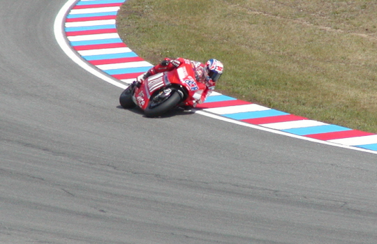 Casey Stoner, GP Brno 2007